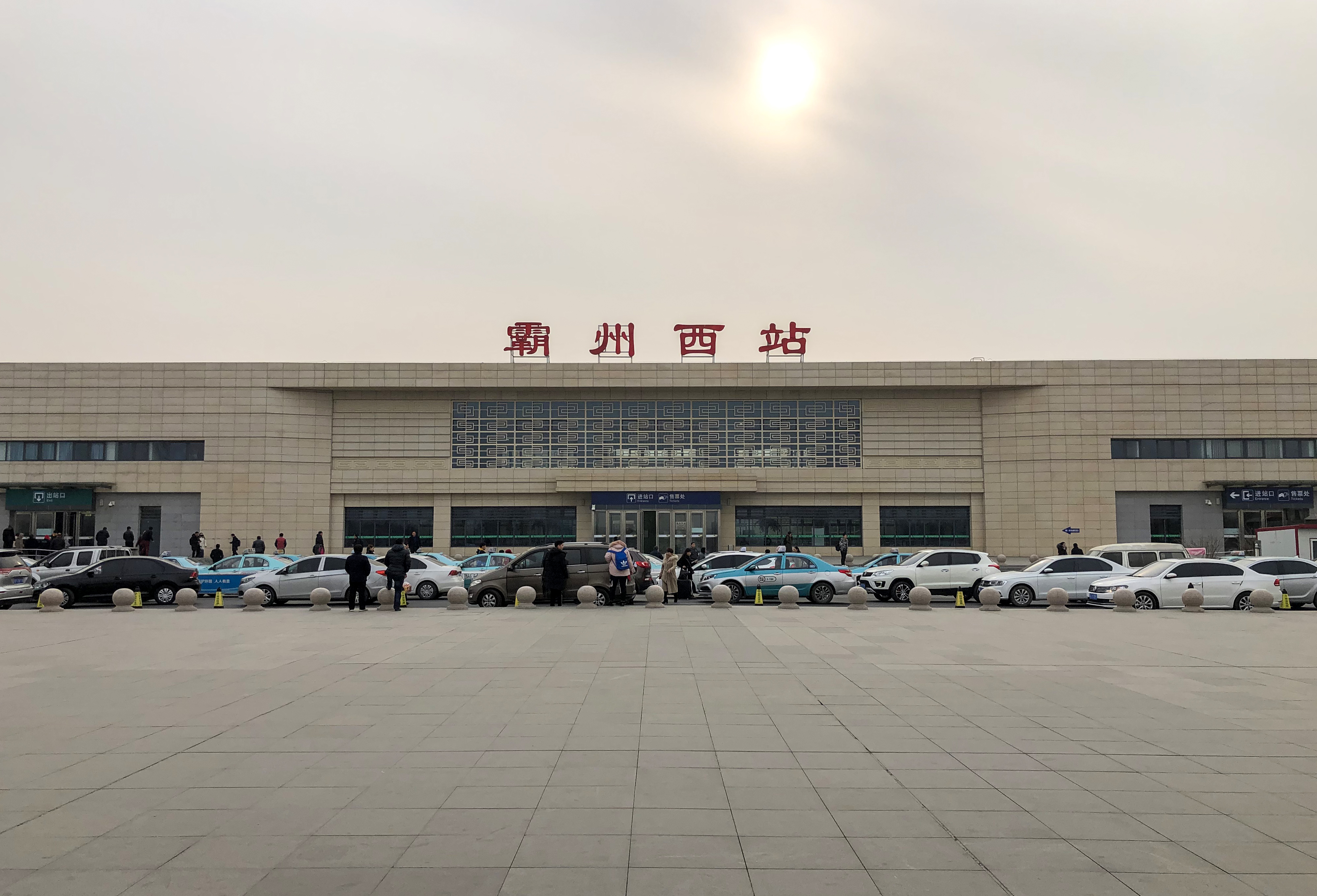 Nearly disordered on the station square! It has been 30 years since "X-day"...